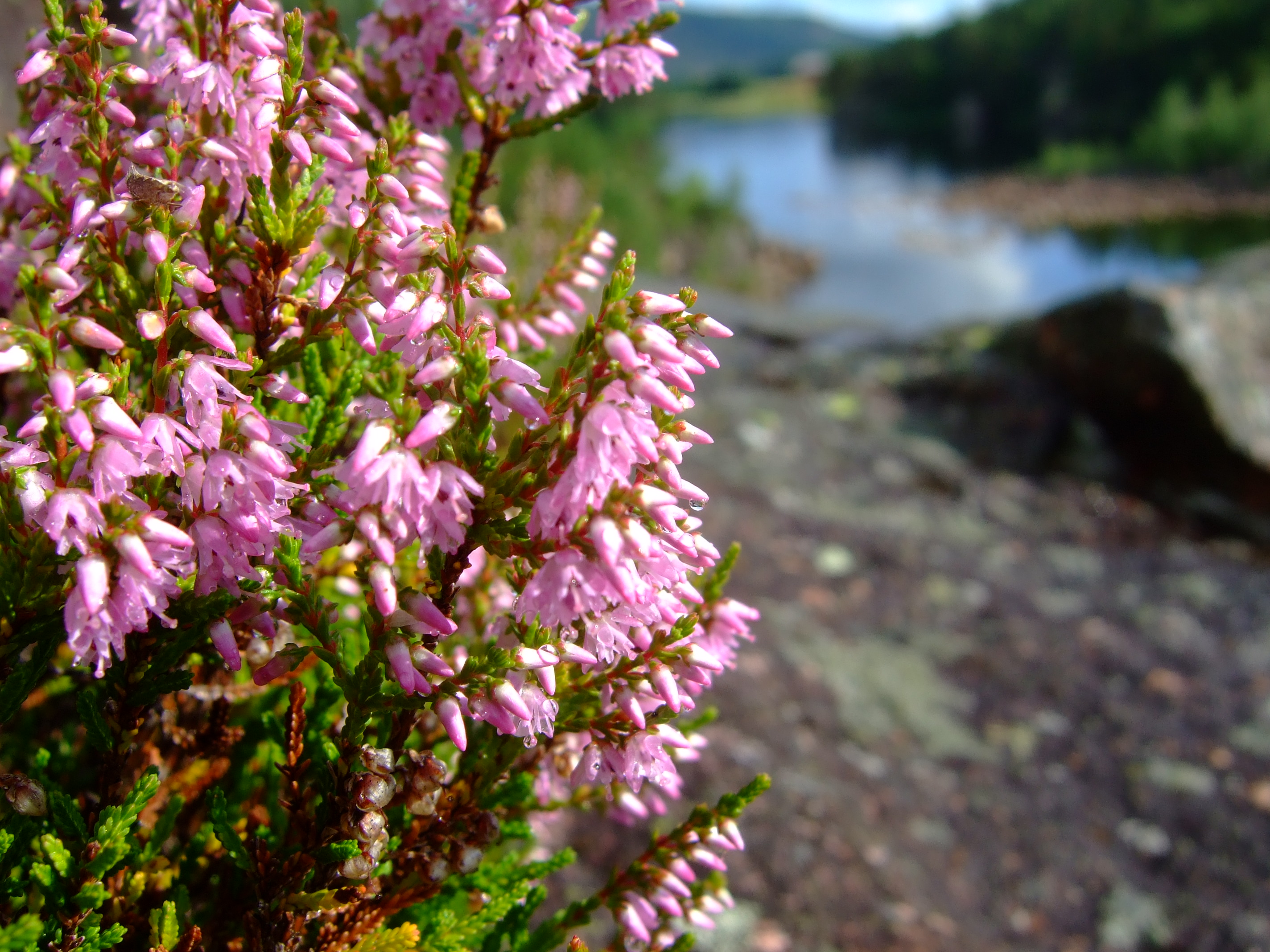 Common Heather in Herefoss, Aust-Agder.